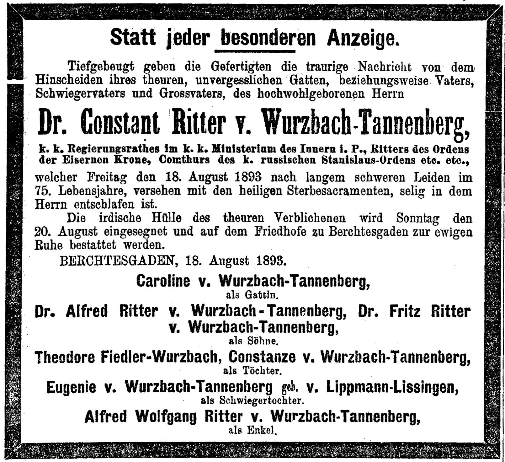 Obituary: Constant Wurzbach von Tannenberg (1818-1893), Austrian librarian, lexicographer and writer